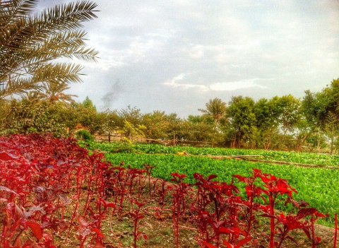 One of south sehla farms